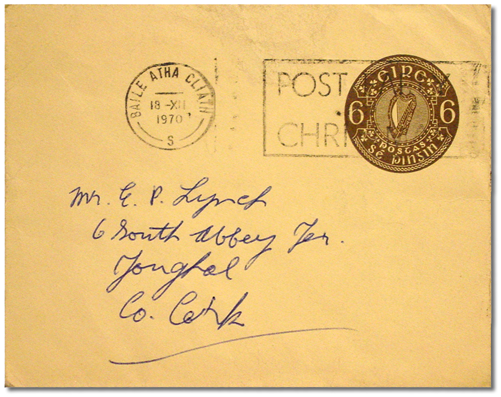 Irish postal stationery envelope with 6d imprint used at the domestic printed matter rate in December 1970